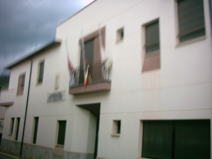 A work release by Francisco Javier Martin Lopez, Javier martin, 2005 3 September ,Puertollano Ciudad Real, Spain, donated free license to Wikipedia